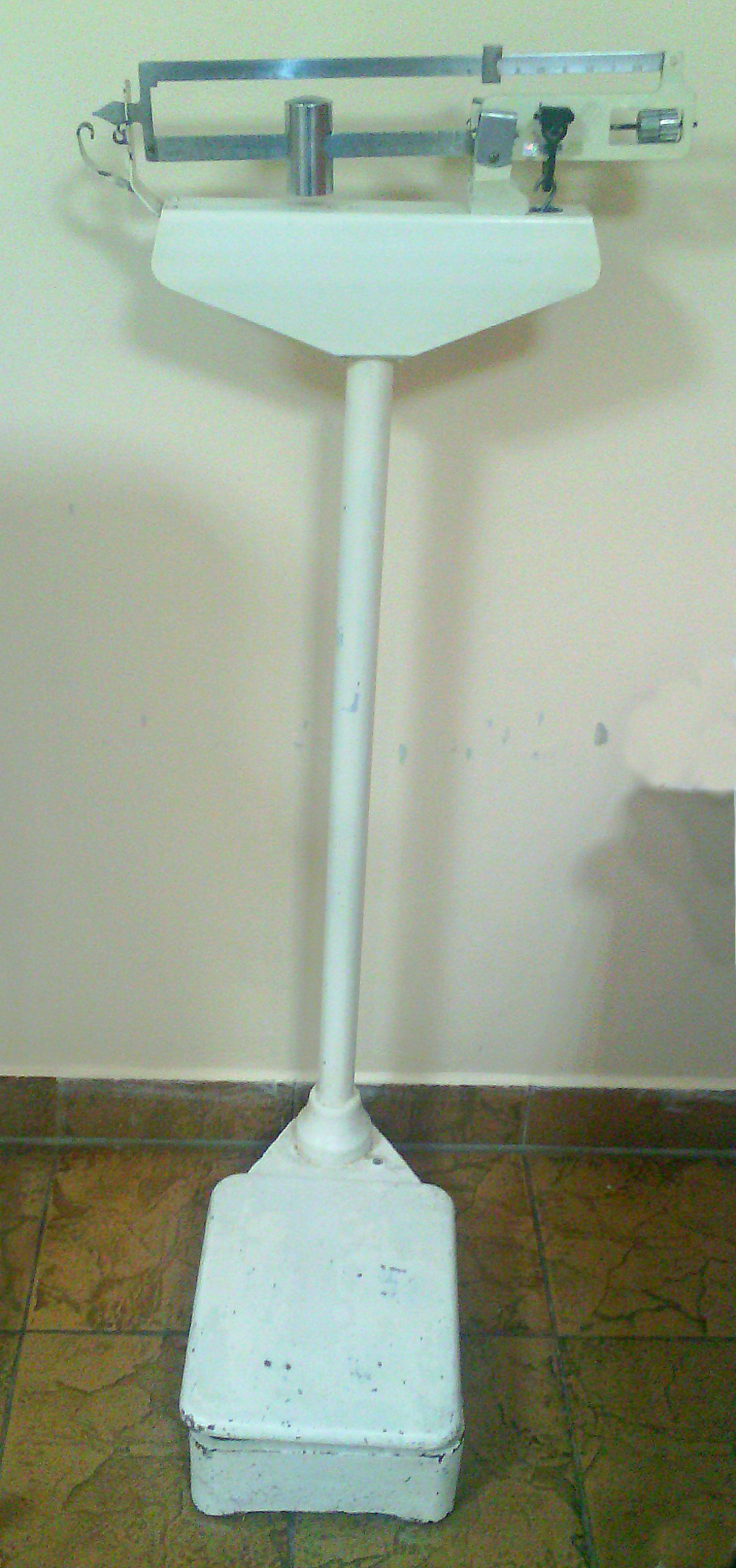 47, Lomonosova Street, Severodvinsk.Hospital.